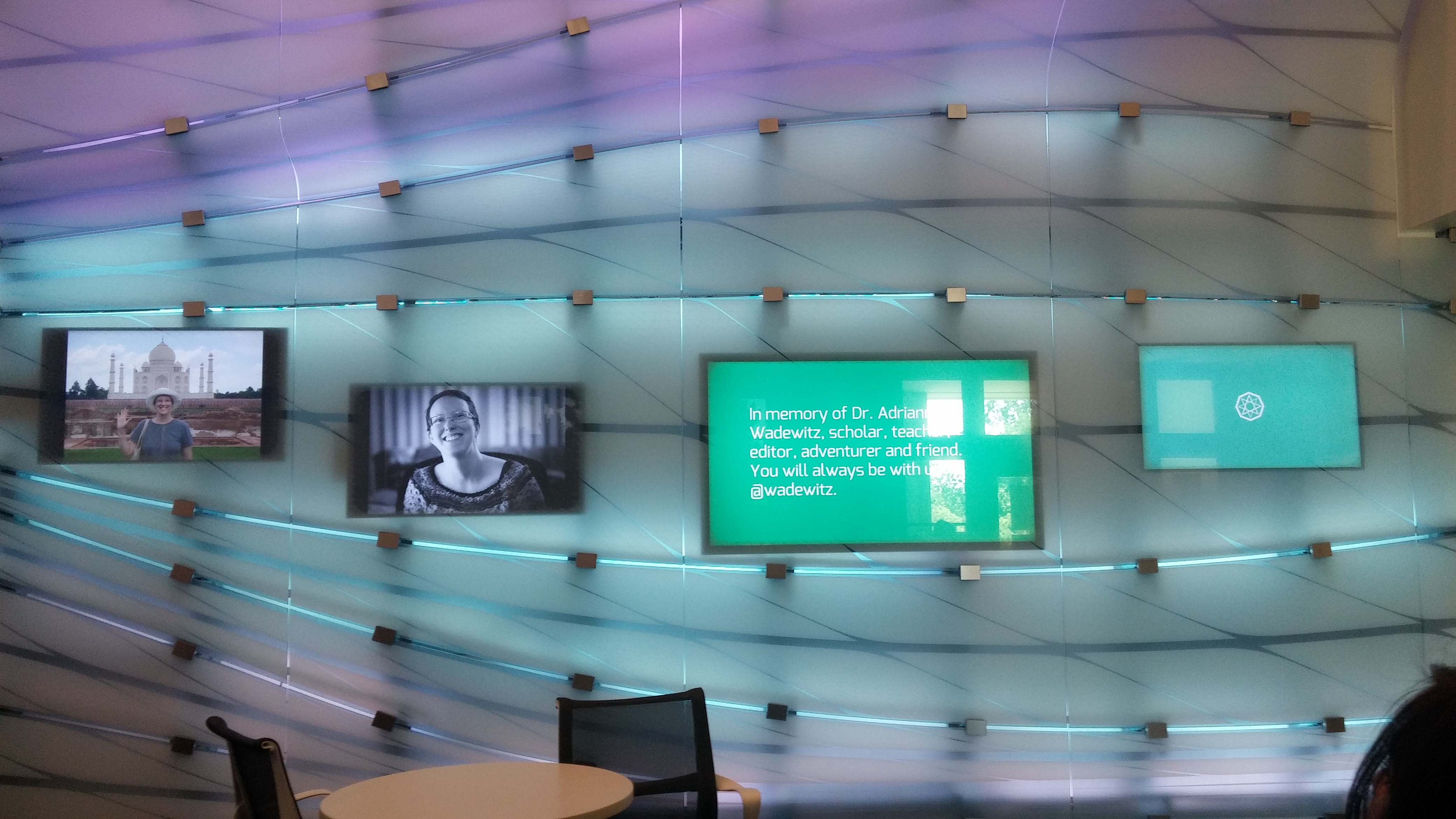 Media tribute to Adrianne Wadewitz in McKinnon Hall, Occidental College. The three smaller screens show slideshows of photos of her. Other screens (not visible in this photo) show a live feed of her Twitter stream.